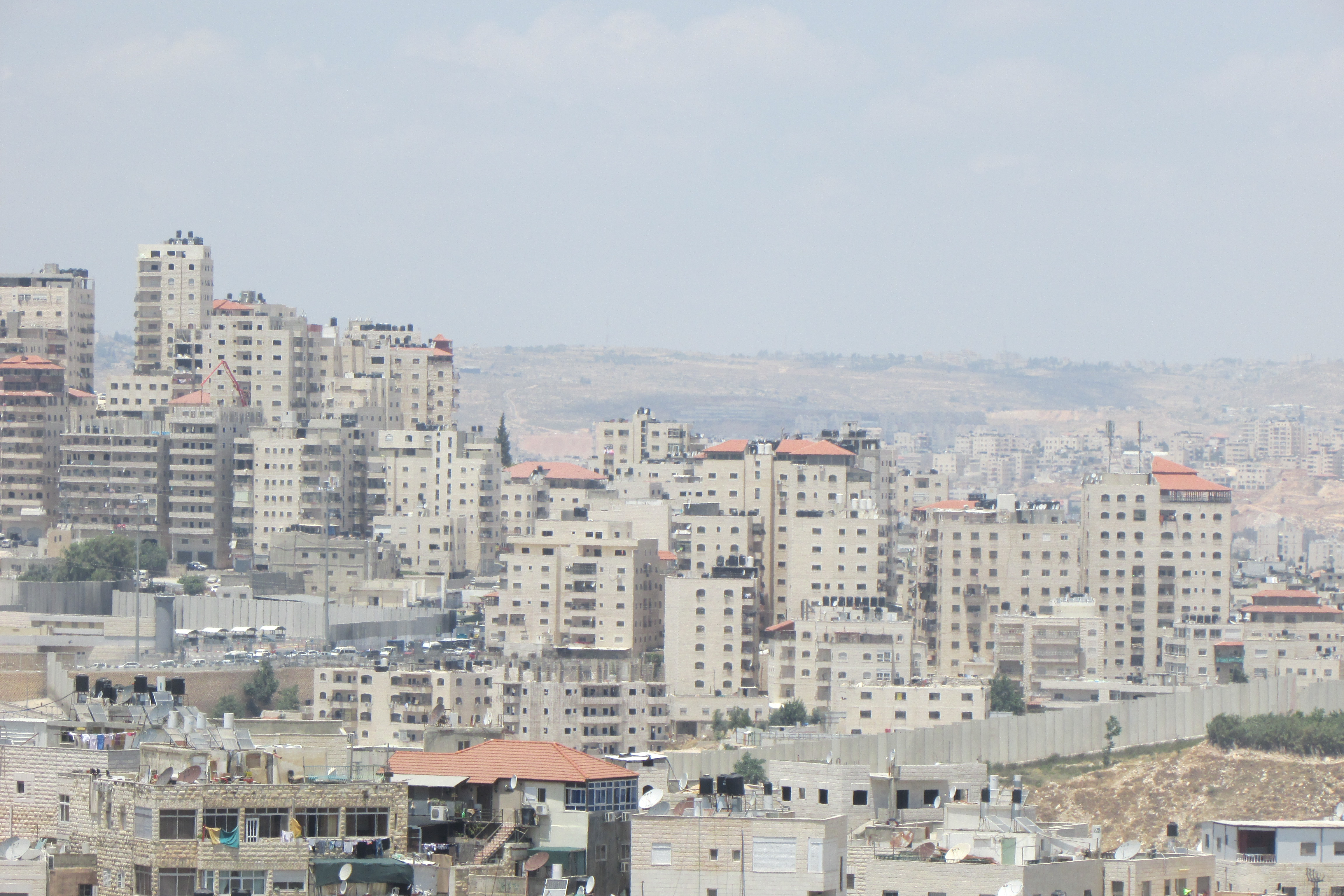 The houses behind the wall are Shu'fat camp. The picture was taken from Mount Scopus. On the left is the Shuafat passage in the separation wall.